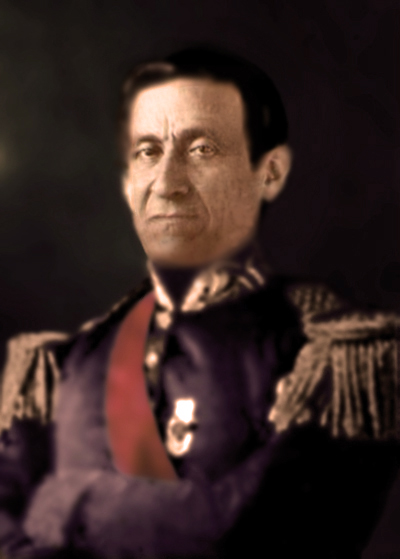 José María Melo, Colombian president in 1854